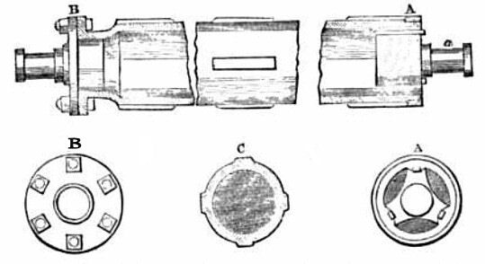 Line drawing showing shaft with gudgeons and pins. Two types of gudgeons are illustrated.